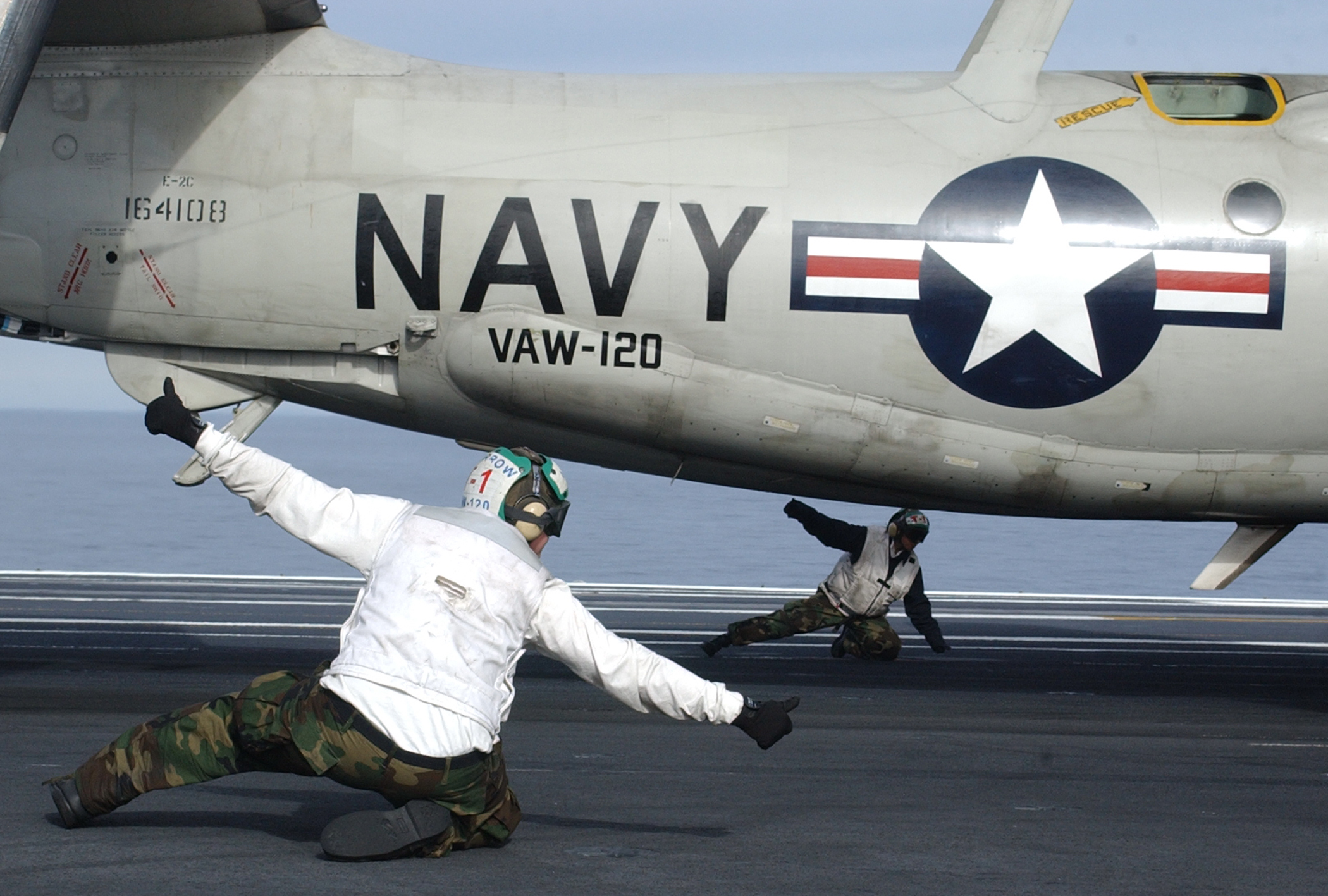 Pacific Ocean (Feb. 13, 2004) – “Final Checker” flight deck personal give final clearance to launch an E-2C Hawkeye assigned to the "Greyhawks" of Carrier Airborne Early Warning Squadron One Two Zero (VAW-120), during flight operations aboard USS John C. Stennis (CVN 74). The San Diego-based nuclear powered aircraft carrier is at sea conducting training exercises in the Southern California operating area. U.S. Navy photo by Photographer's Mate 3rd Class Joshua Word. (RELEASED)